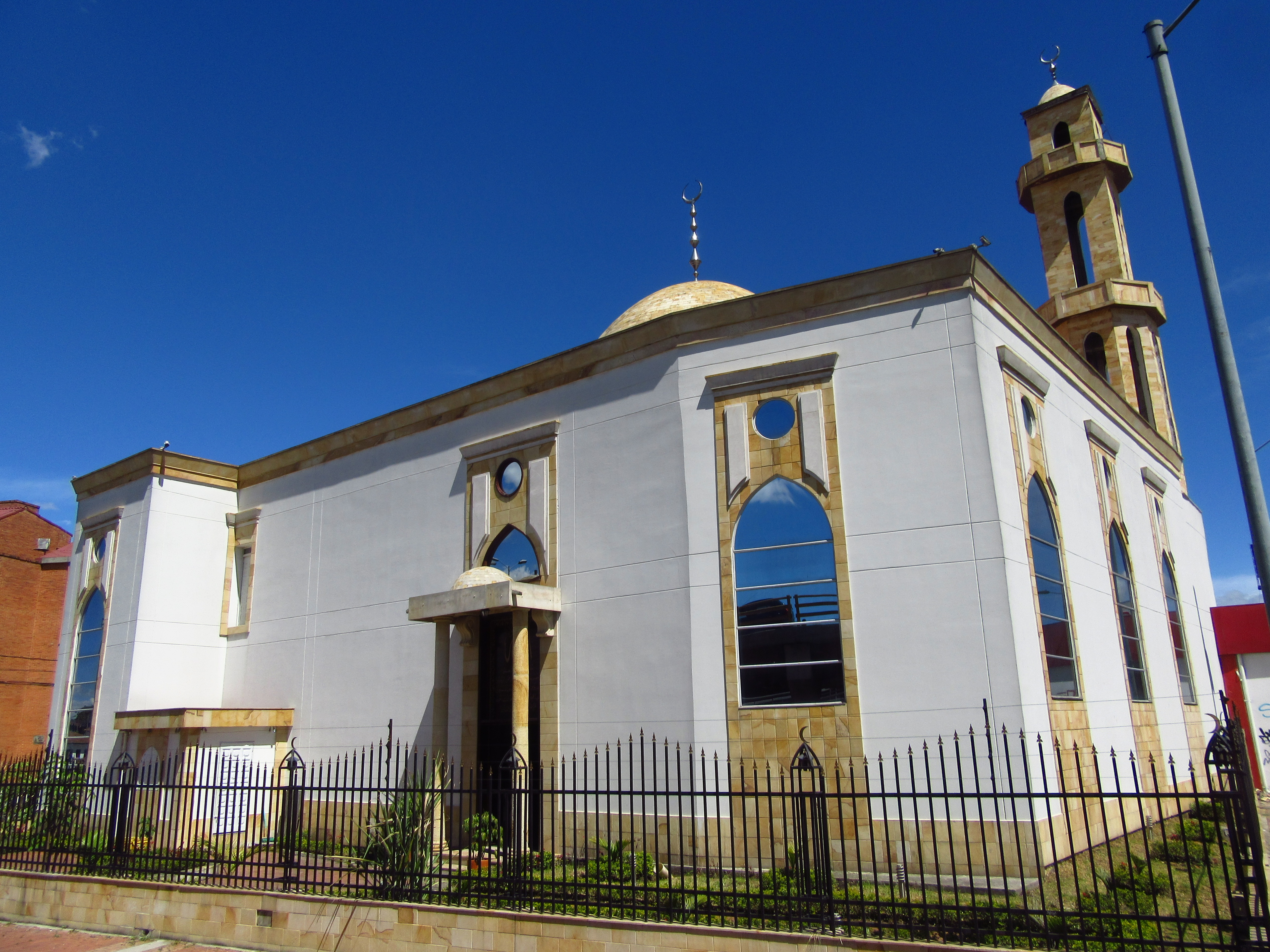 Bogotá